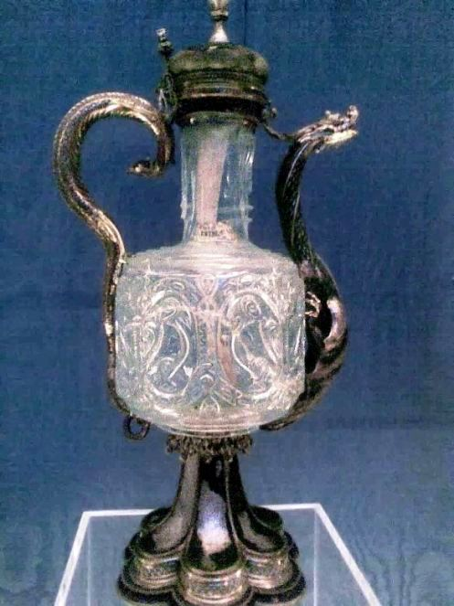 Fatimid bottle in rock crystal, adorned with height medallions with birds and lions on the neck. Silver frame in form of a dragon from the renaissance.